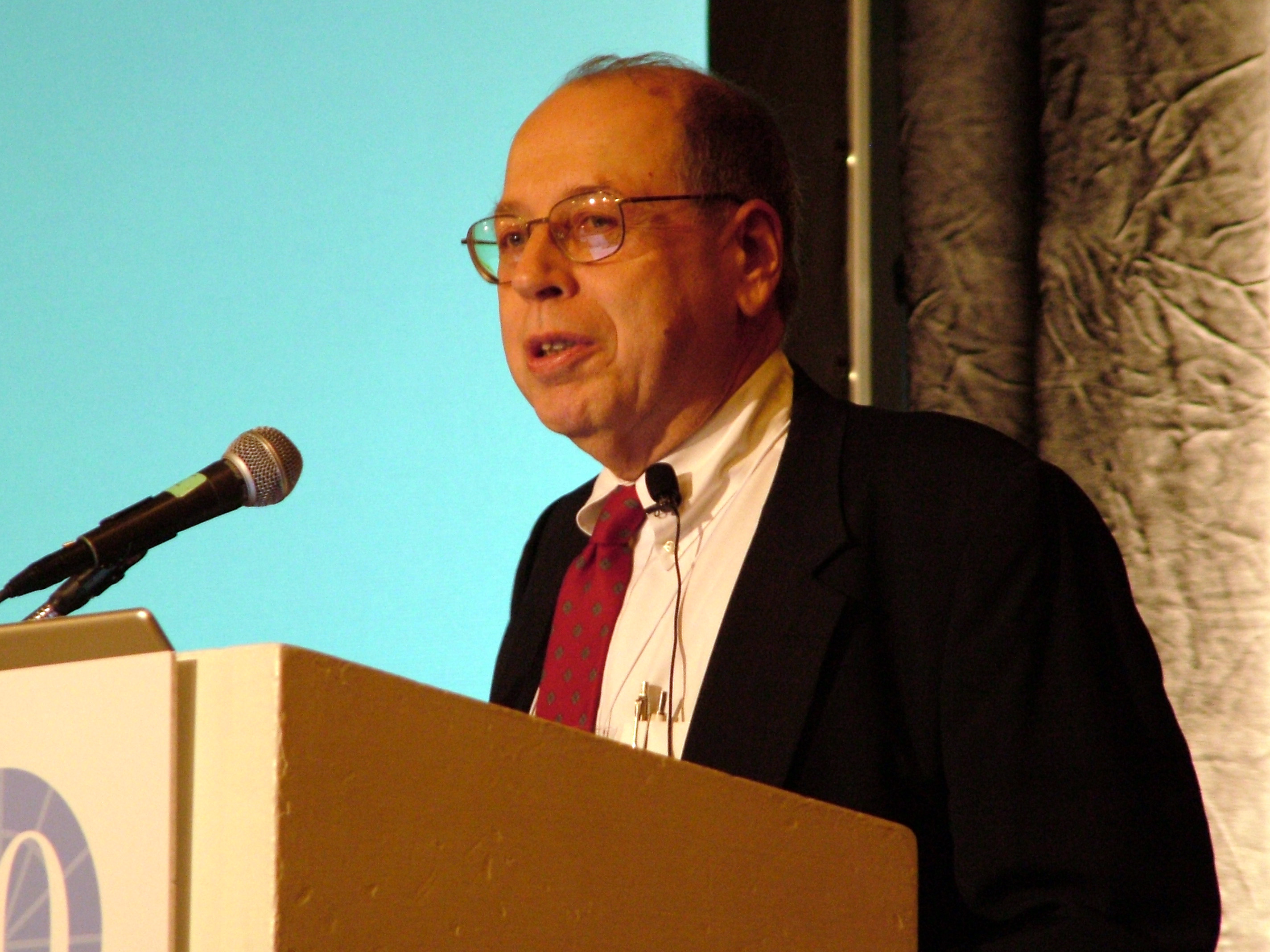 I've had a couple of requests to use this photo for articles about Alan. I hereby give permission to anyone celebrating his life to freely use this photo. You are welcome to use the full sized photo (2848x2136 pixels), and to make modifications if necessary.